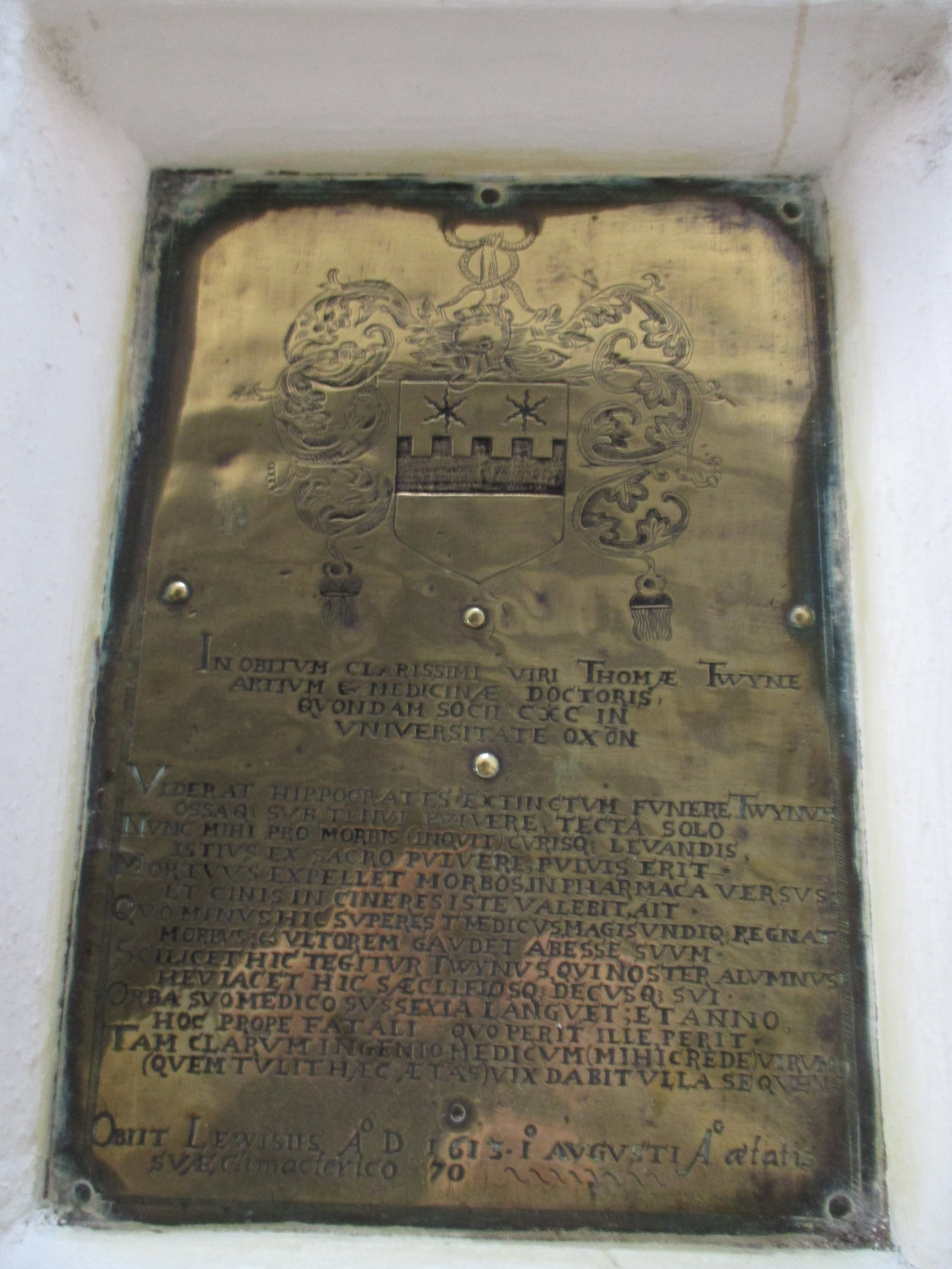 Memorial brass to the physician and translator Thomas Twyne, in the chancel of St Anne's Church, Lewes, East Sussex.